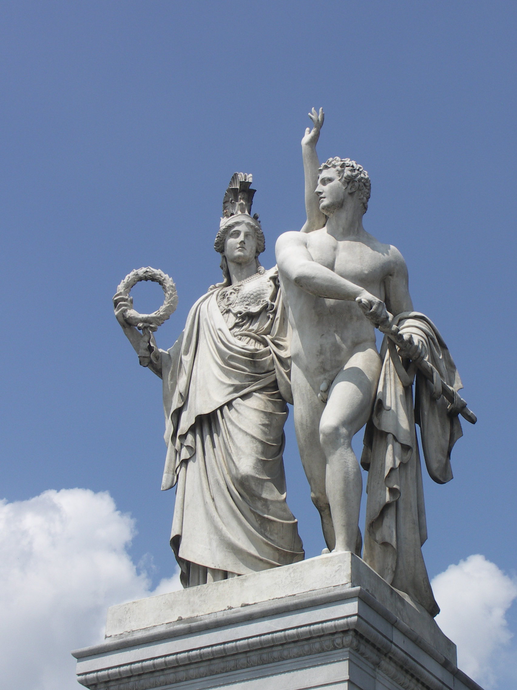 Diomedes counseled by Athena (1853) by Albert Wolff, at the Schlossbrücke in central Berlin